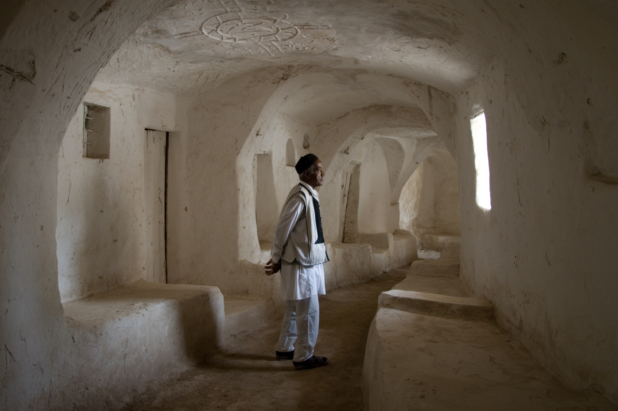 The ancient desert town of Ghadames, Libya, is designed to fight the dramatic extremities of Saharan climate. Houses are made out of mud, lime, and palm tree trunks with covered alleyways between them to offer good shelter against summer heat